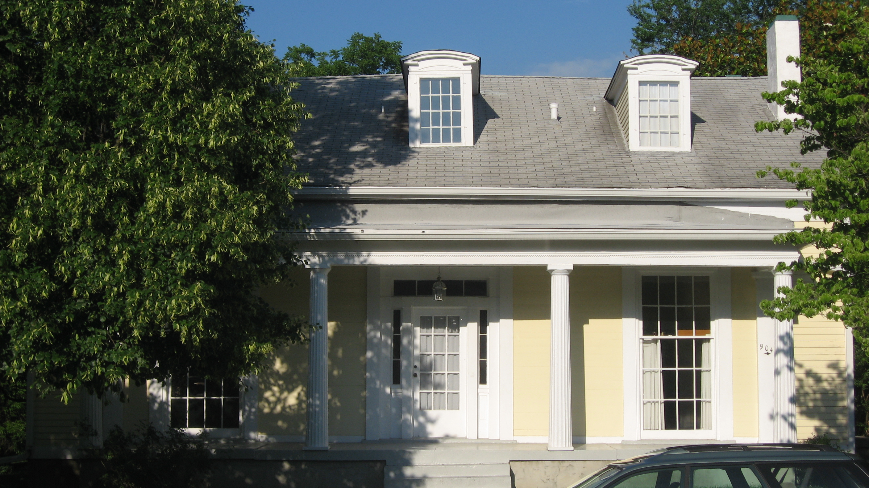 Front of the Williams-Warren-Zimmerman House, located at 900-904 S. Fourth Street in Terre Haute, Indiana, United States. Built in 1849, it is listed on the National Register of Historic Places.